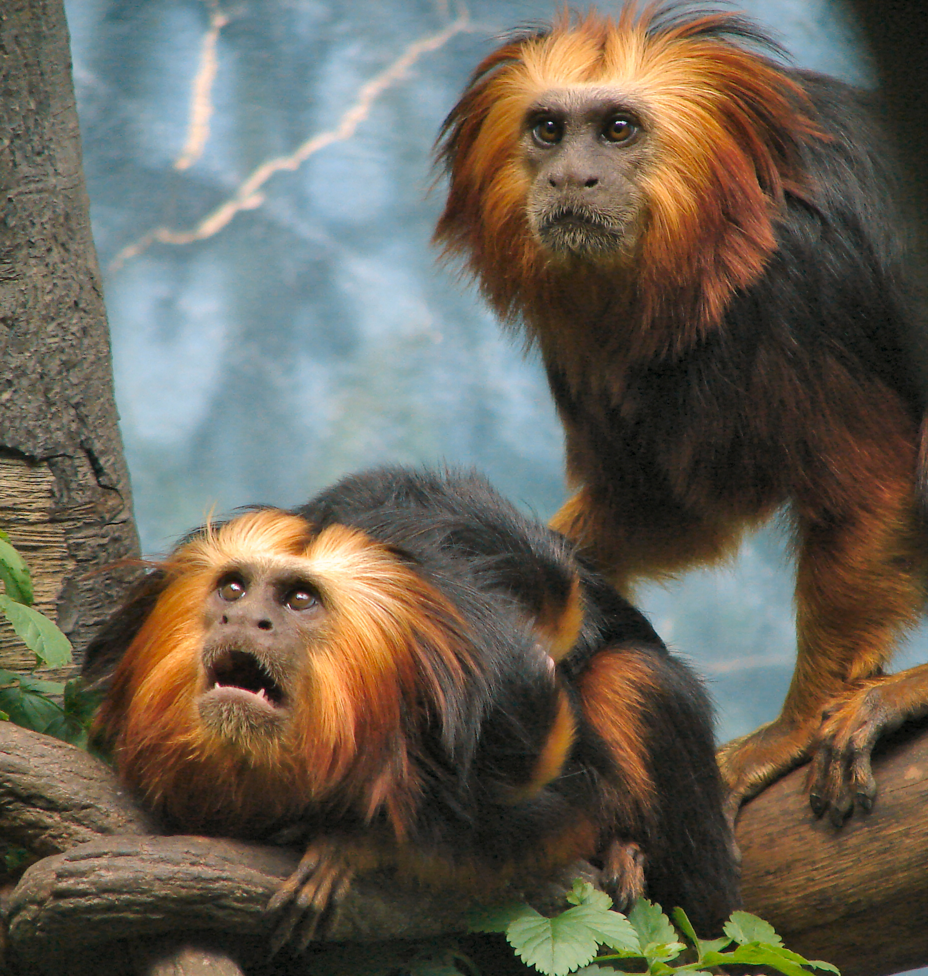 Golden-headed lion tamarins from the Mexico City Zoo. There are four of them in this photo, the two you can clearly see plus the two babies hanging onto the lower tamarin's back.